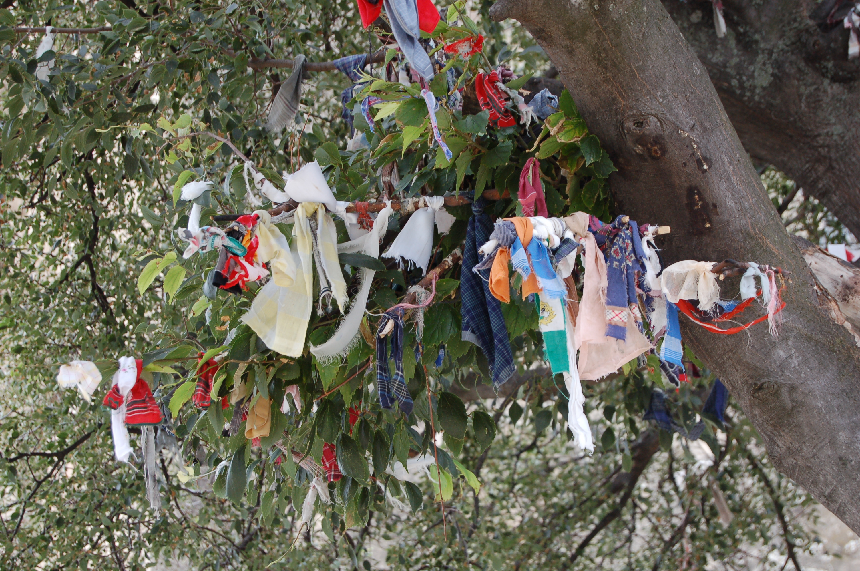 In a tree outside Jvari church outside Mtshketa, Georgia's first capital.